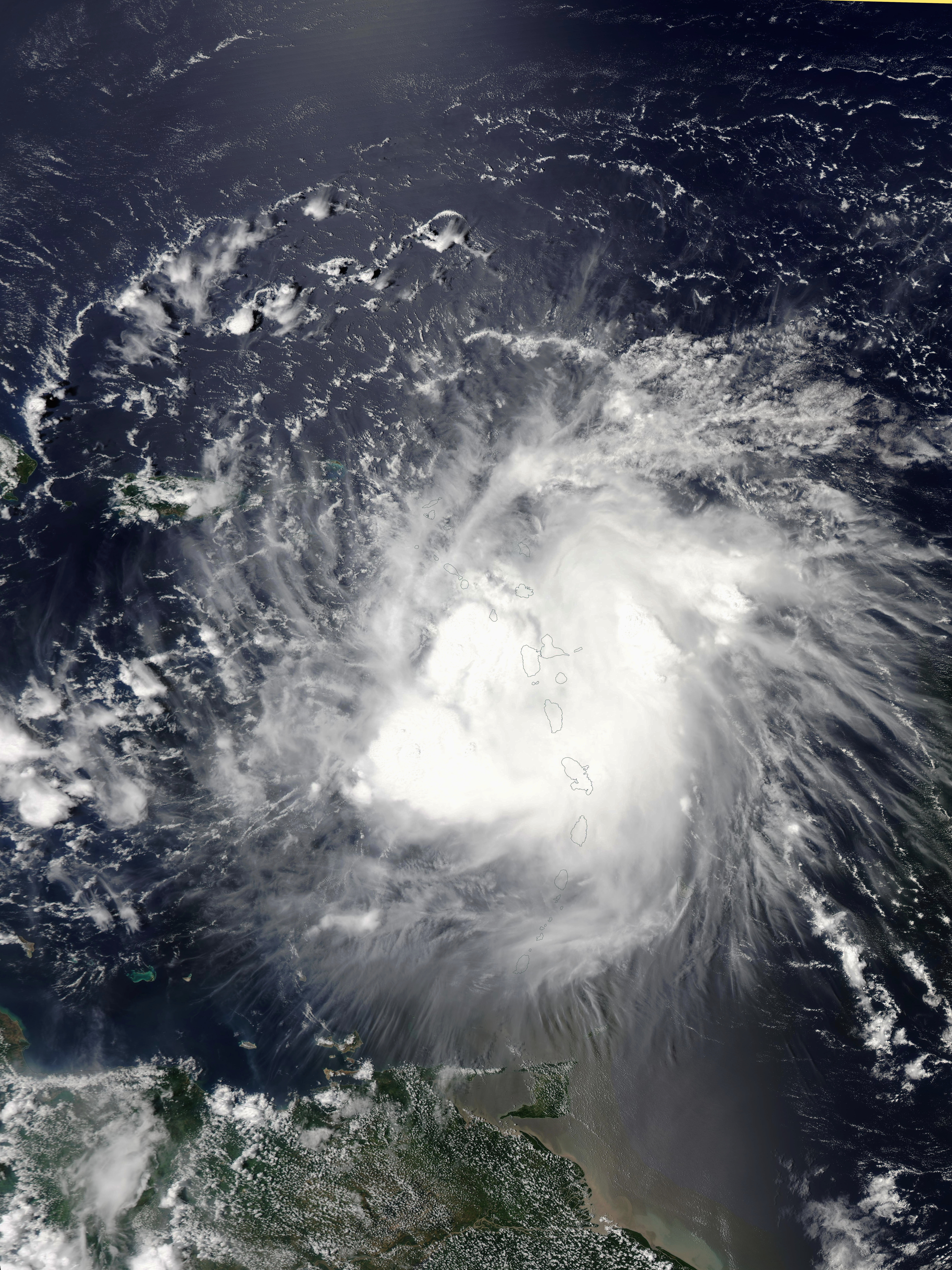 Tropical Storm Erika (05L) over the Lesser Antilles (afternoon overpass)